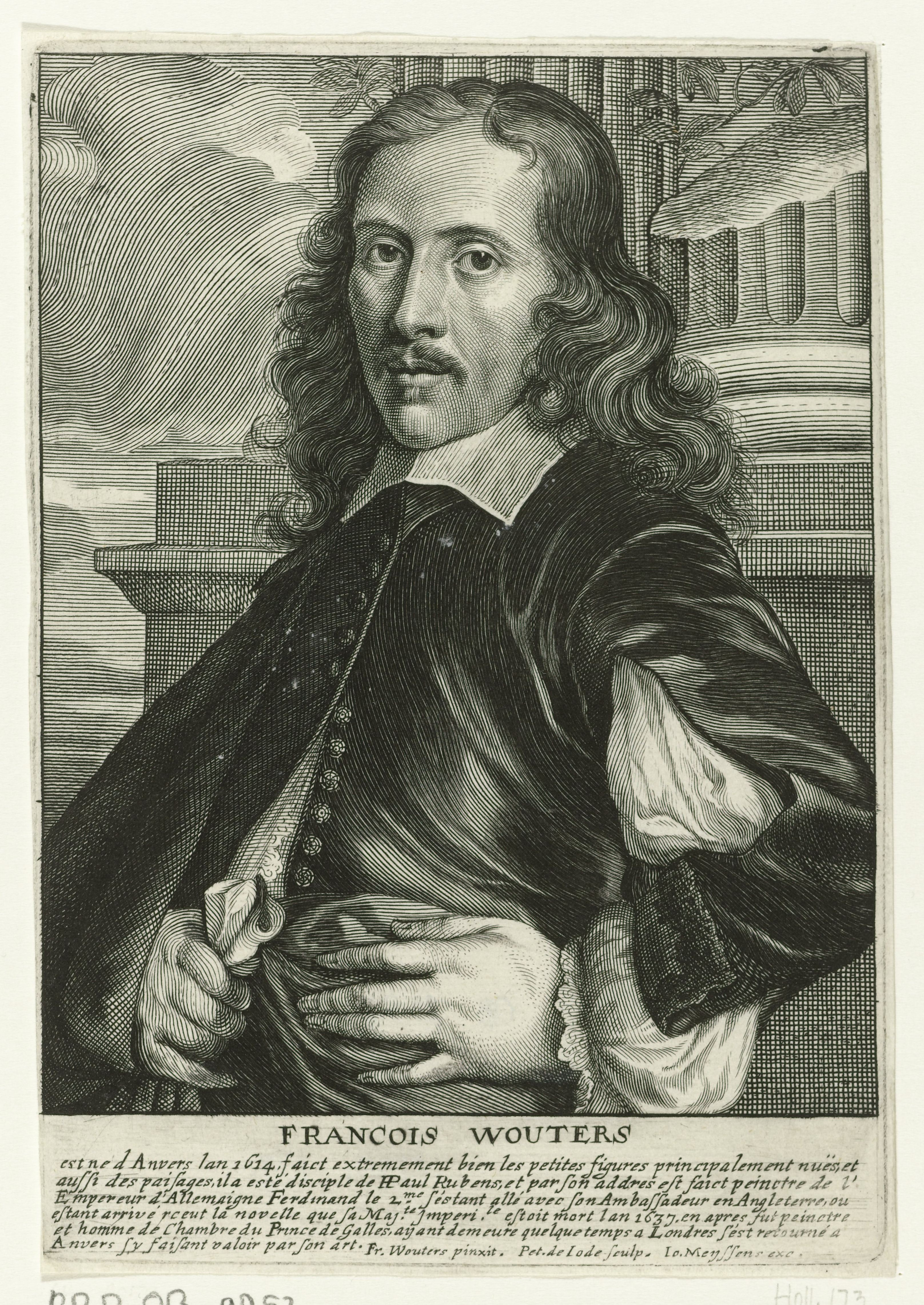 Portrait of Frans Wouters in Cornelis de Bie's Gulden Cabinet.